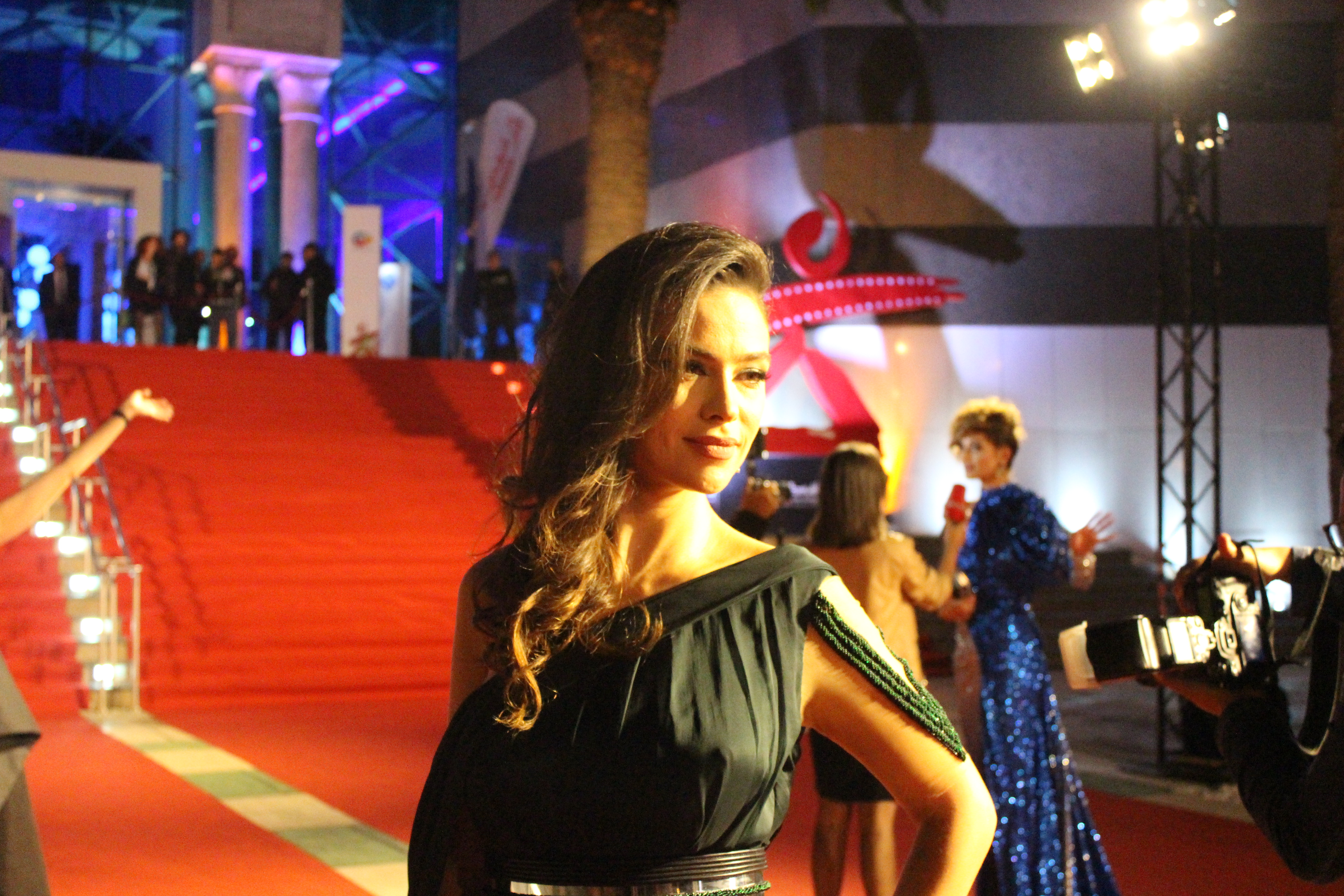 Opening ceremony of the 2018 Carthage Film Festival